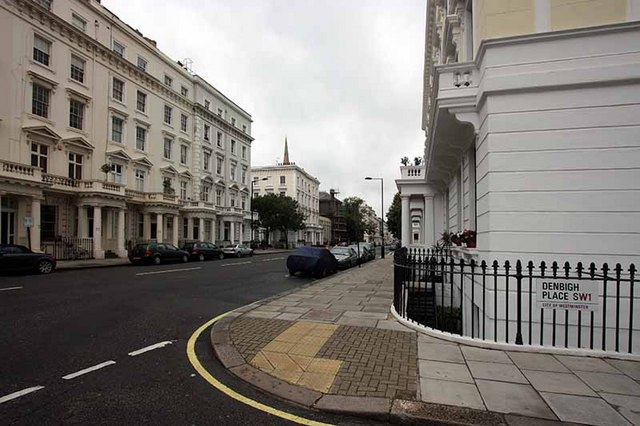 St George's Drive, London SW1 View from Denbigh Place